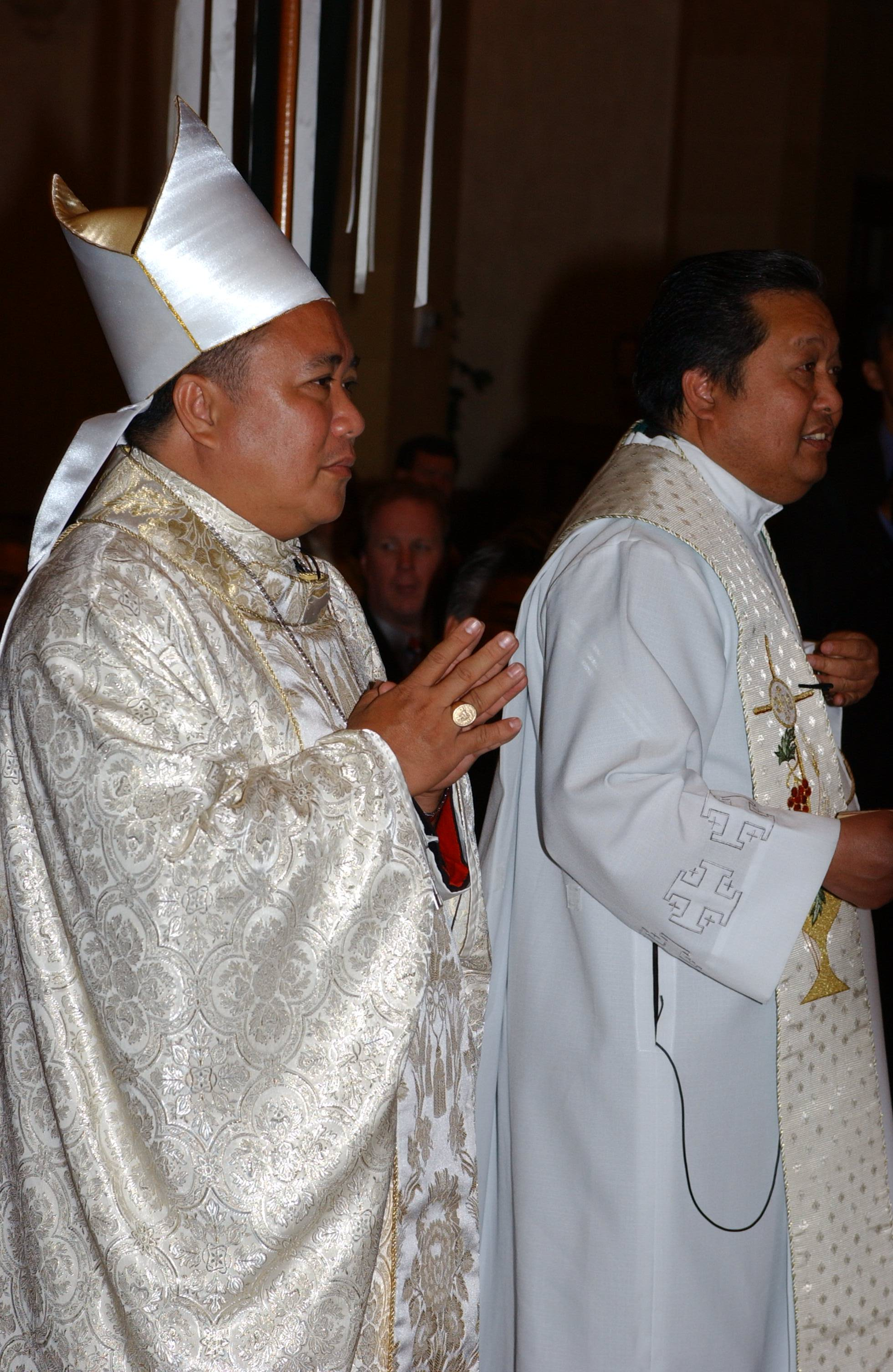 Most Reverend Antonieto D. Cabajog, D.D., Bishop of Surigao, Philippines, during the Tungol Wedding in Chicago, Illinois